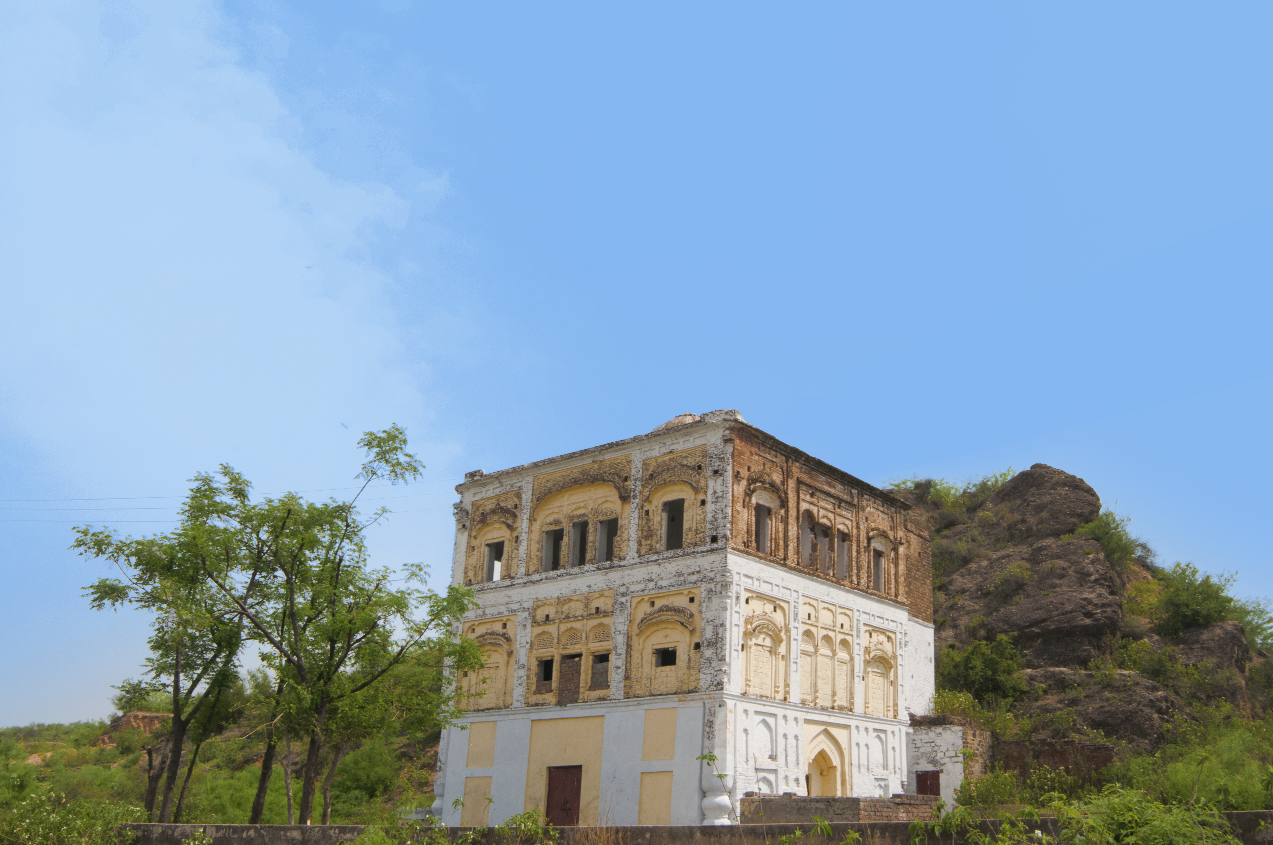 Rohtas Fort.This is a Sikh monument with Rohtas Fort wall near Talaqi Gate.A Baradari and a sacred water source for Sikhs(CHOHA) and it is unknown for many visitors.Usman Ghani This is a photo of a monument in Pakistan identified as the PB-30